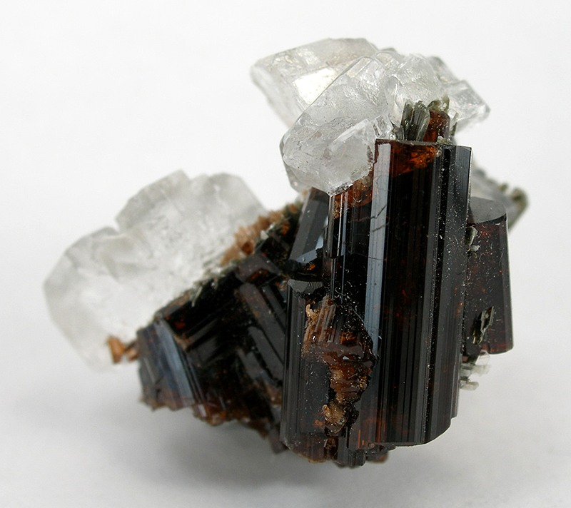 Calcite, Vesuvianite Locality: Alchuri (Alchori; Aschudi), Shigar Valley, Skardu District, Baltistan, Northern Areas, Pakistan (Locality at ) Size: miniature, 3.3 x 2.8 x 2.3 cm Vesuvianite with Calcite Featuring a central 2 cm crystal, doubly-terminated and wine-red, this is simply the most aesthetic and attractive miniature form the find I have seen yet. These started trickling out 2 years ago at Munich, and the flow has been pretty thin since. This piece, really, could hol dits own even with the classic Italian pieces said to be the world's best in previous centuries! The piece ALSO displays well from the other angle, with the dt crystal ATOP and the calcite serving as an accent at the base. TURST ME, its MUCH better in person and will blow you away for the quality you get for the price, compared to any previous finds of gemmyvesuvianite of this Italian alpine style.